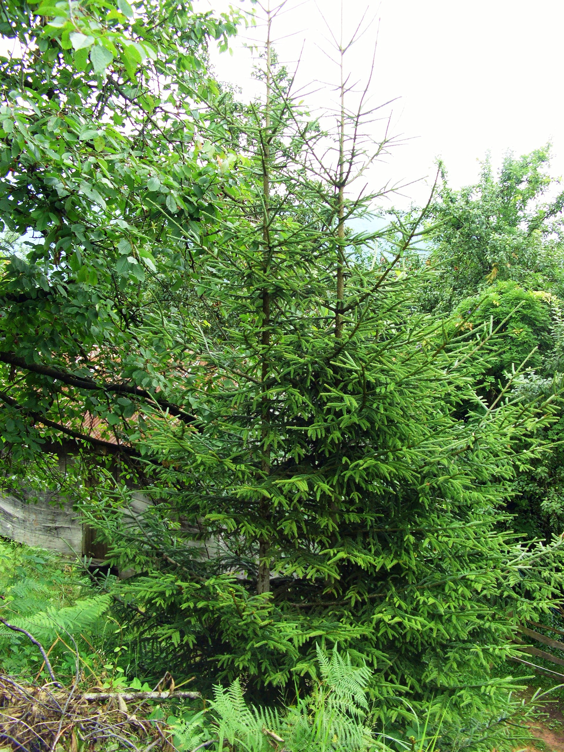 A young Picea orientalis ("doğu ladini" in Turkish) tree. It is a common plant of the forests located in Black Sea Region of Turkey. Photo was taken is Espiye District of Giresun Province.